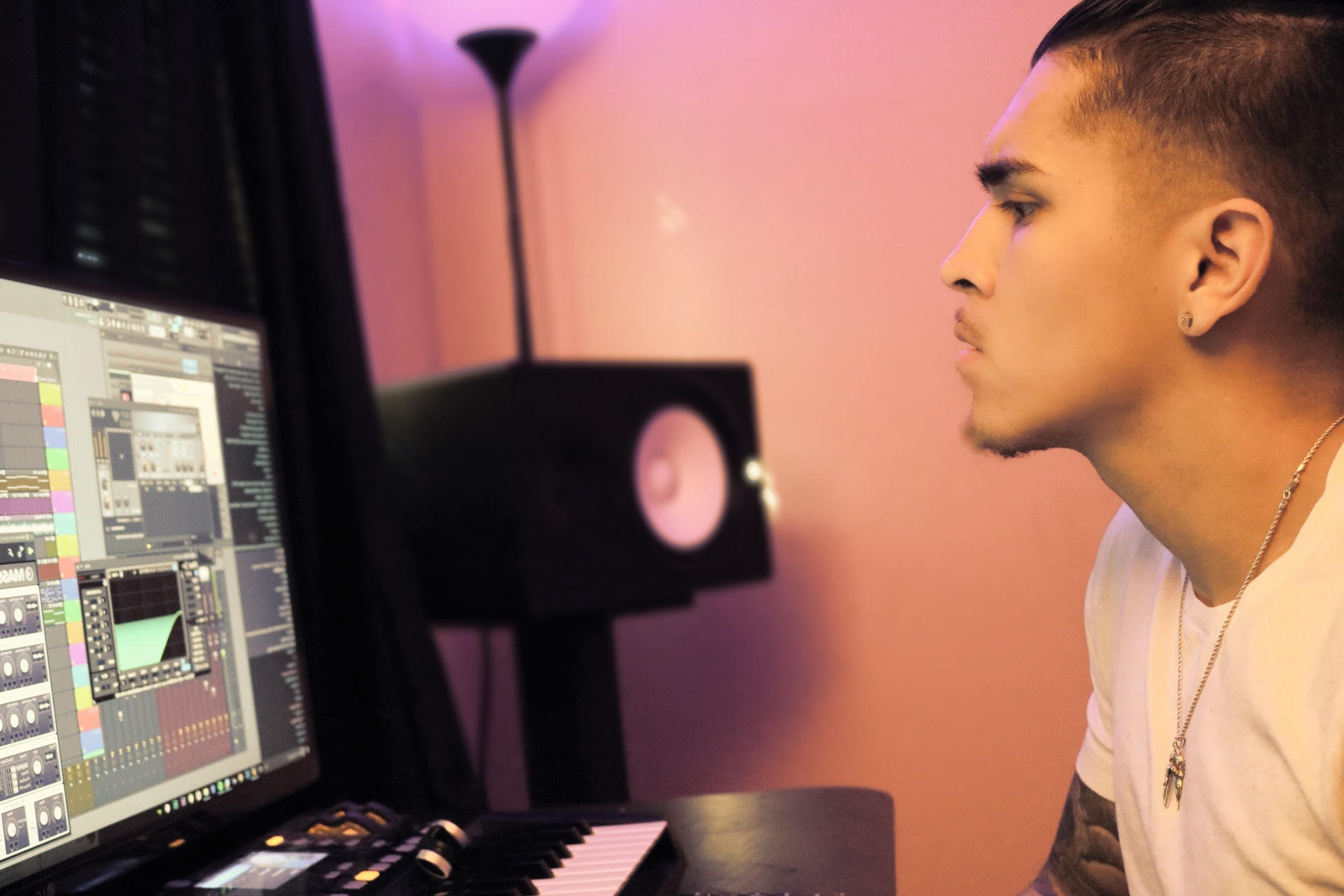 Music Producer Vybe beatz in the studio